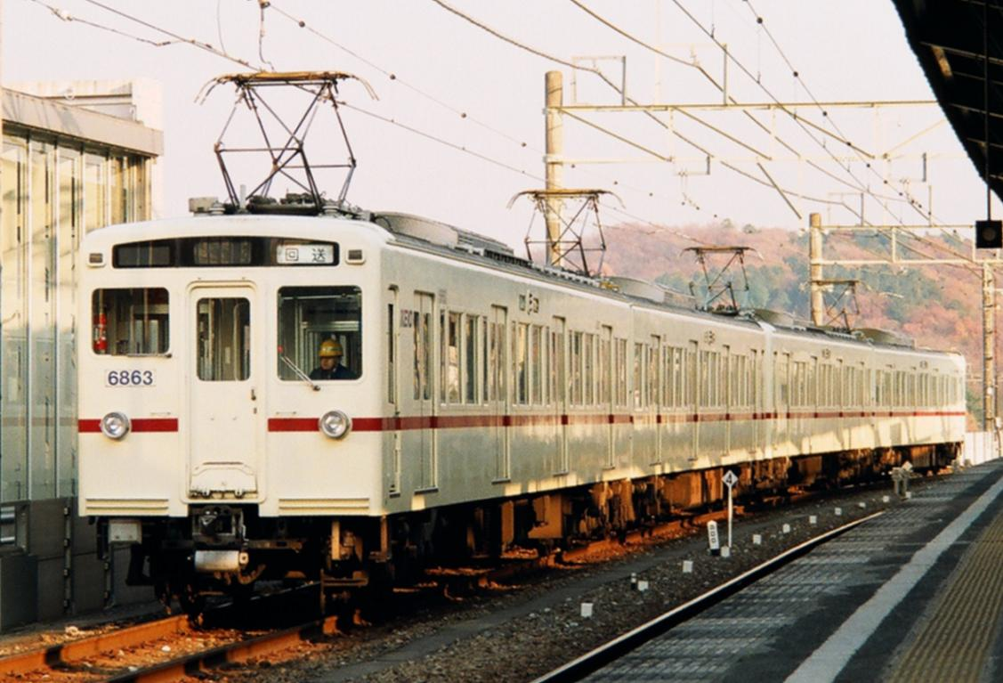 Keio Railway Type 6000 Train (Japan). See also Ja:京王6000系電車 for more information(written in Japanese). 京王6000系電車 画像は2両編成の6850番台。 京王相模原線若葉台駅のホームより撮影。